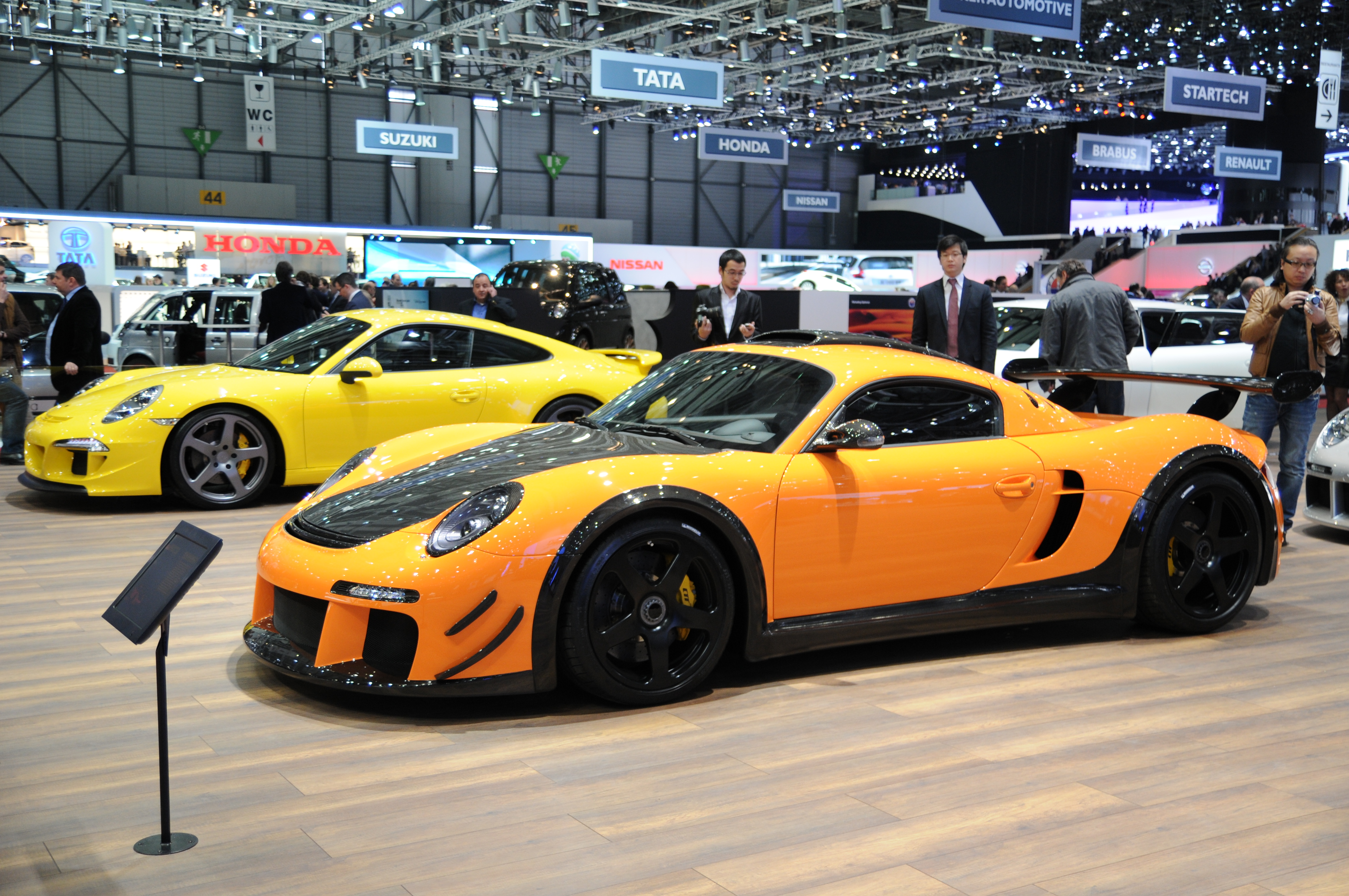 Geneva Motor Show 2012 (photos taken on the second press day)